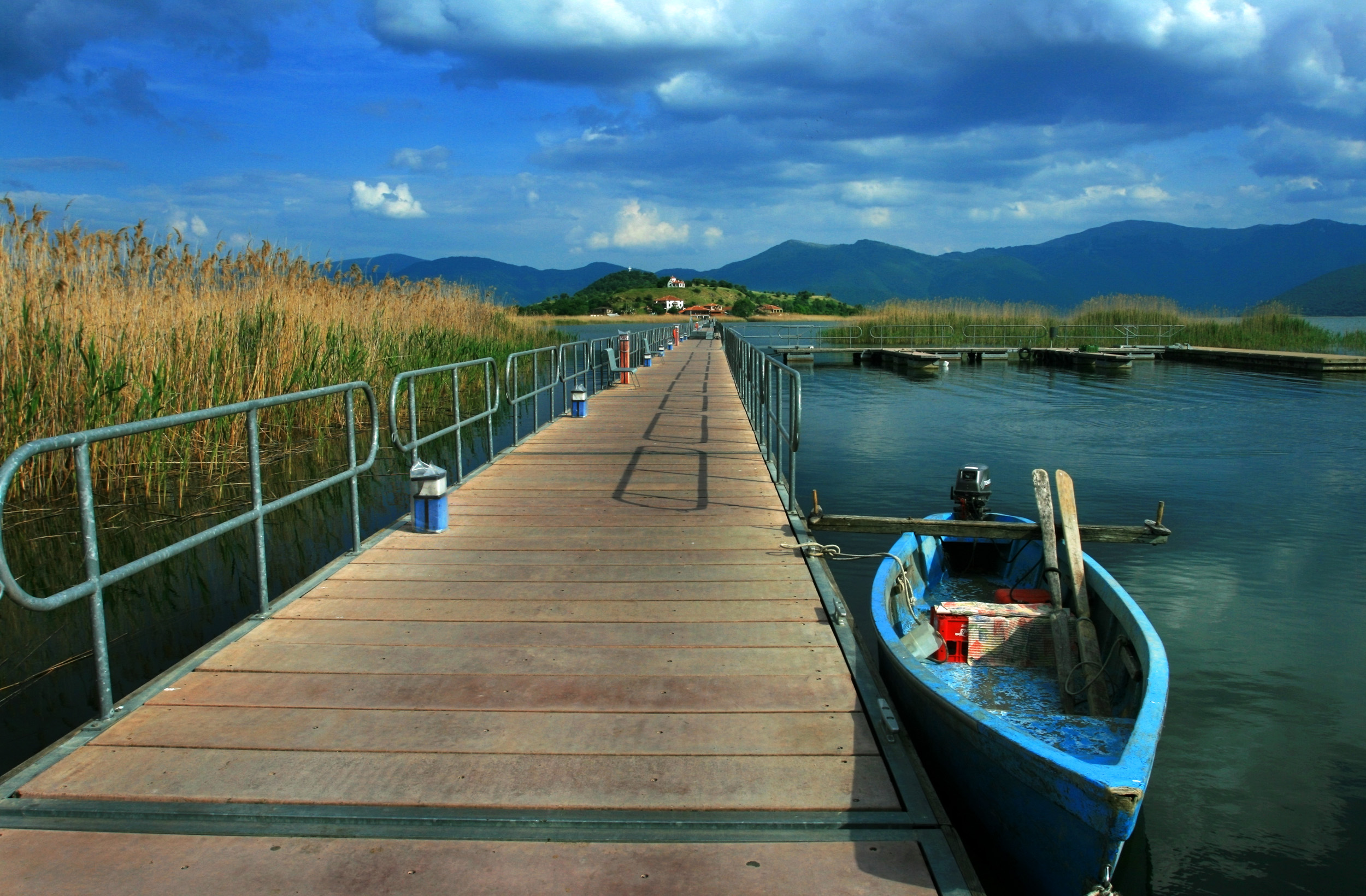 This is a photography of Natura 2000 protected area with ID GR1340001